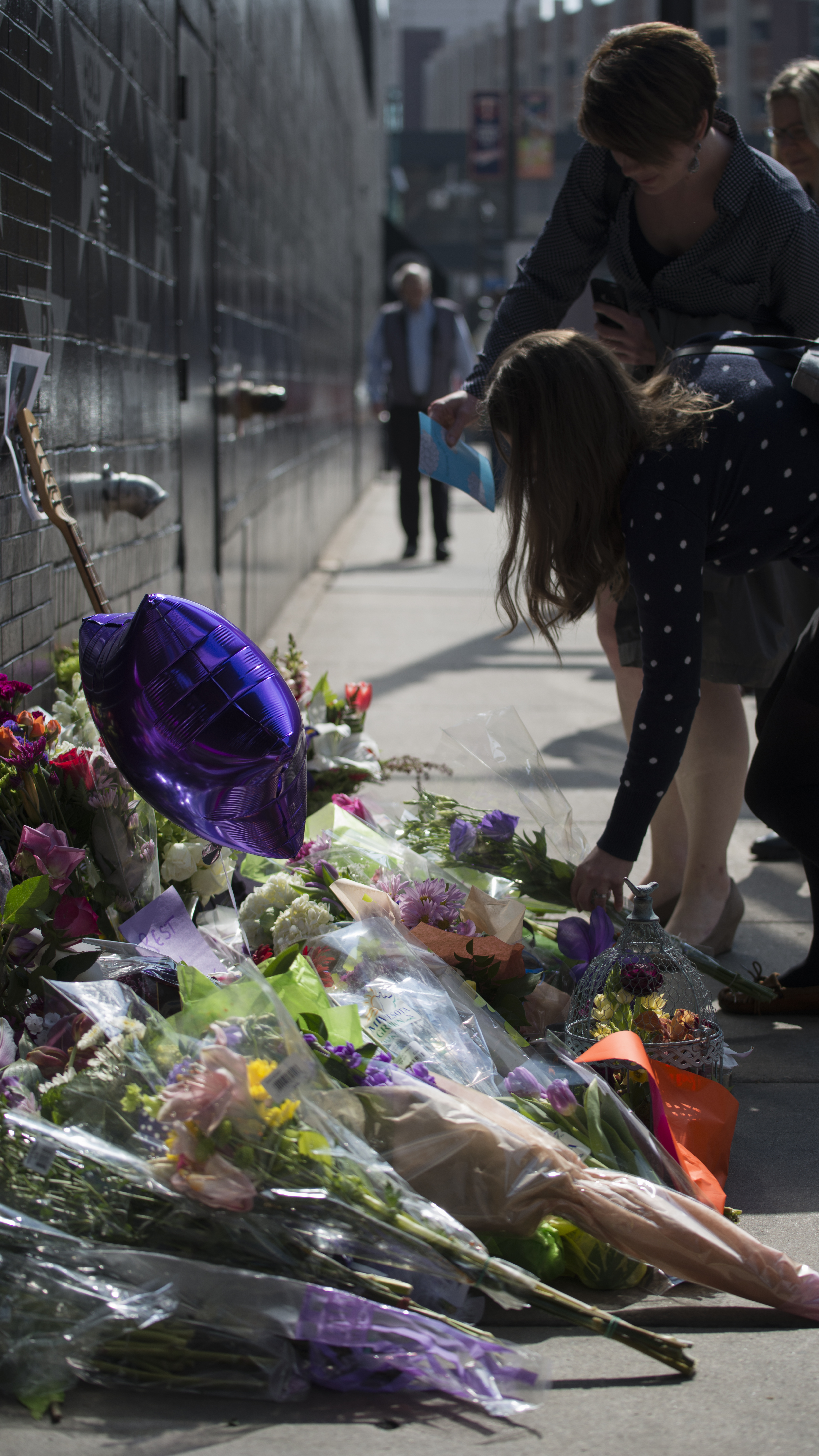 Leaving flowers for Prince at First Avenue in Minneapolis